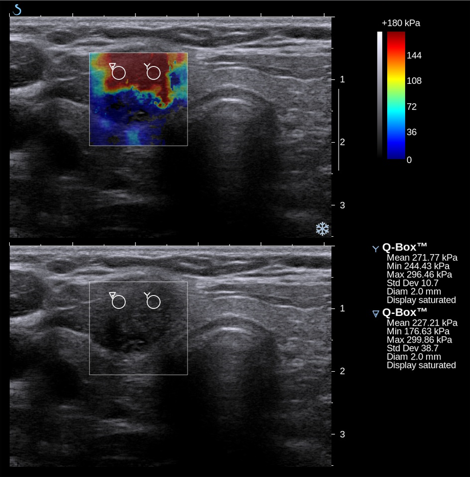 Conventional ultrasonography (lower image) and elastography (supersonic shear imaging; upper image) of papillary thyroid carcinoma, a malignant cancer. The scale is in kPa of Young's modulus.